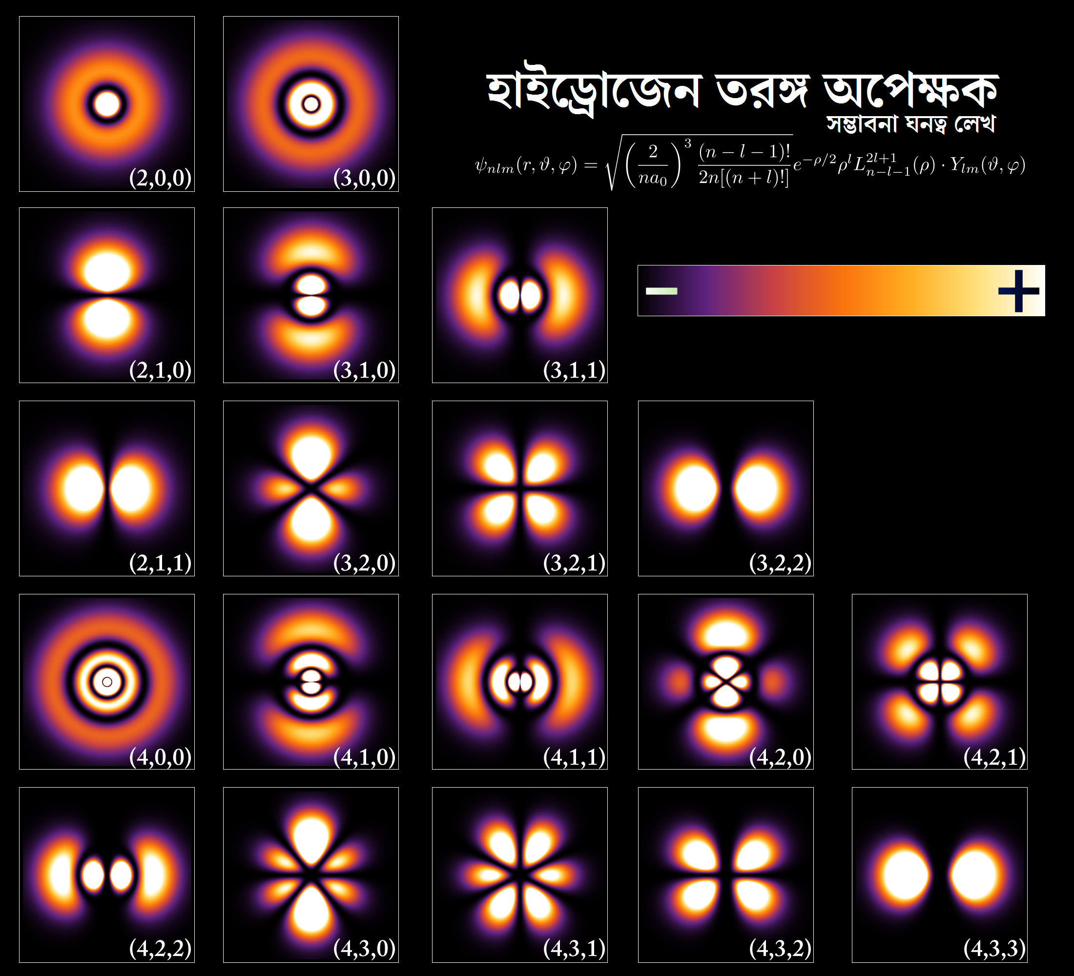 Hydrogen Density Plots for n up 4.